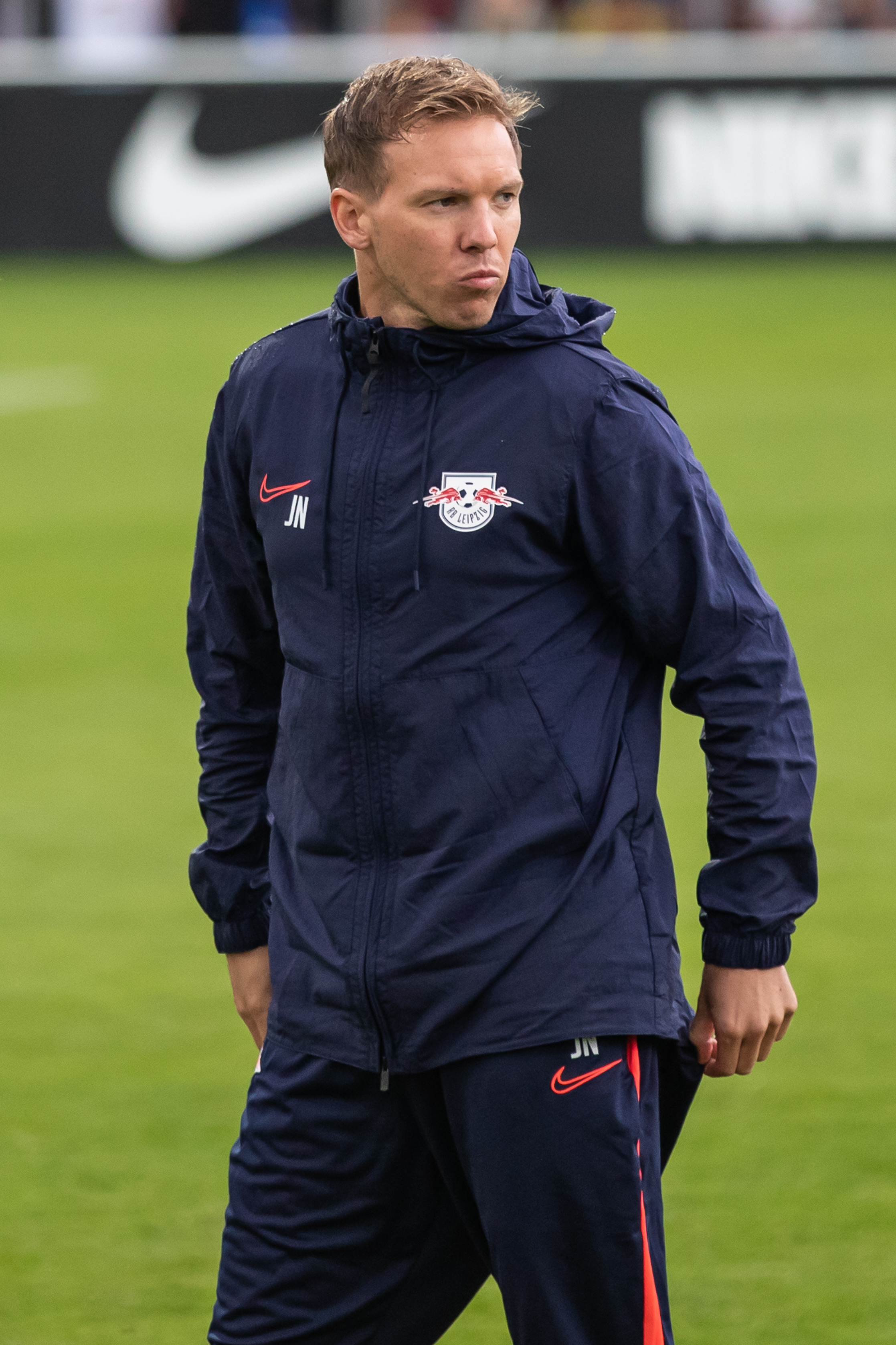 trial and friendly soccer match RB Leipzig vs. FC Zürich 2019-07-12; Julian Nagelsmann (RB Leipzig, Trainer, head coach)